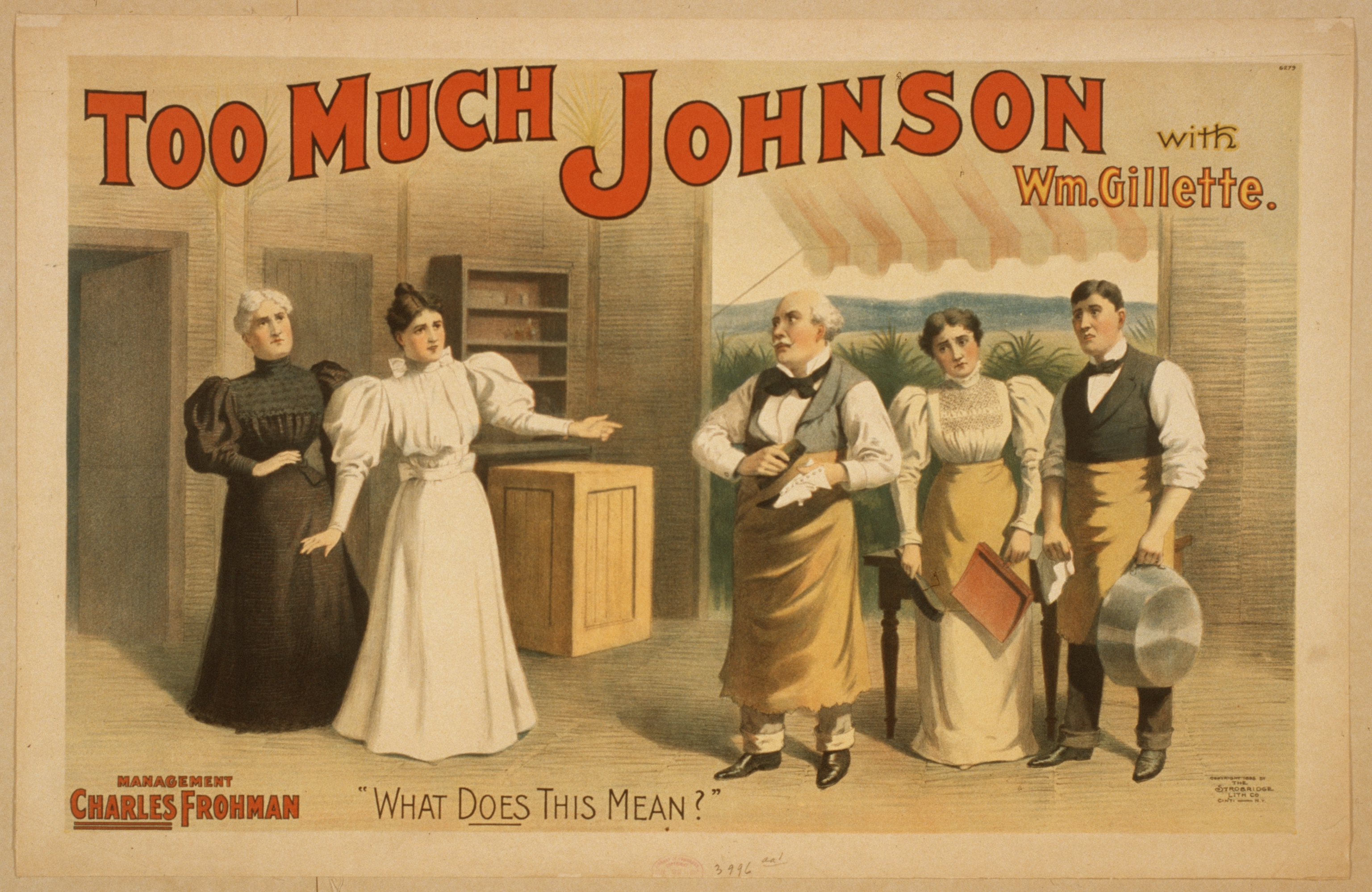 Too much Johnson with William Gillette, 1895.